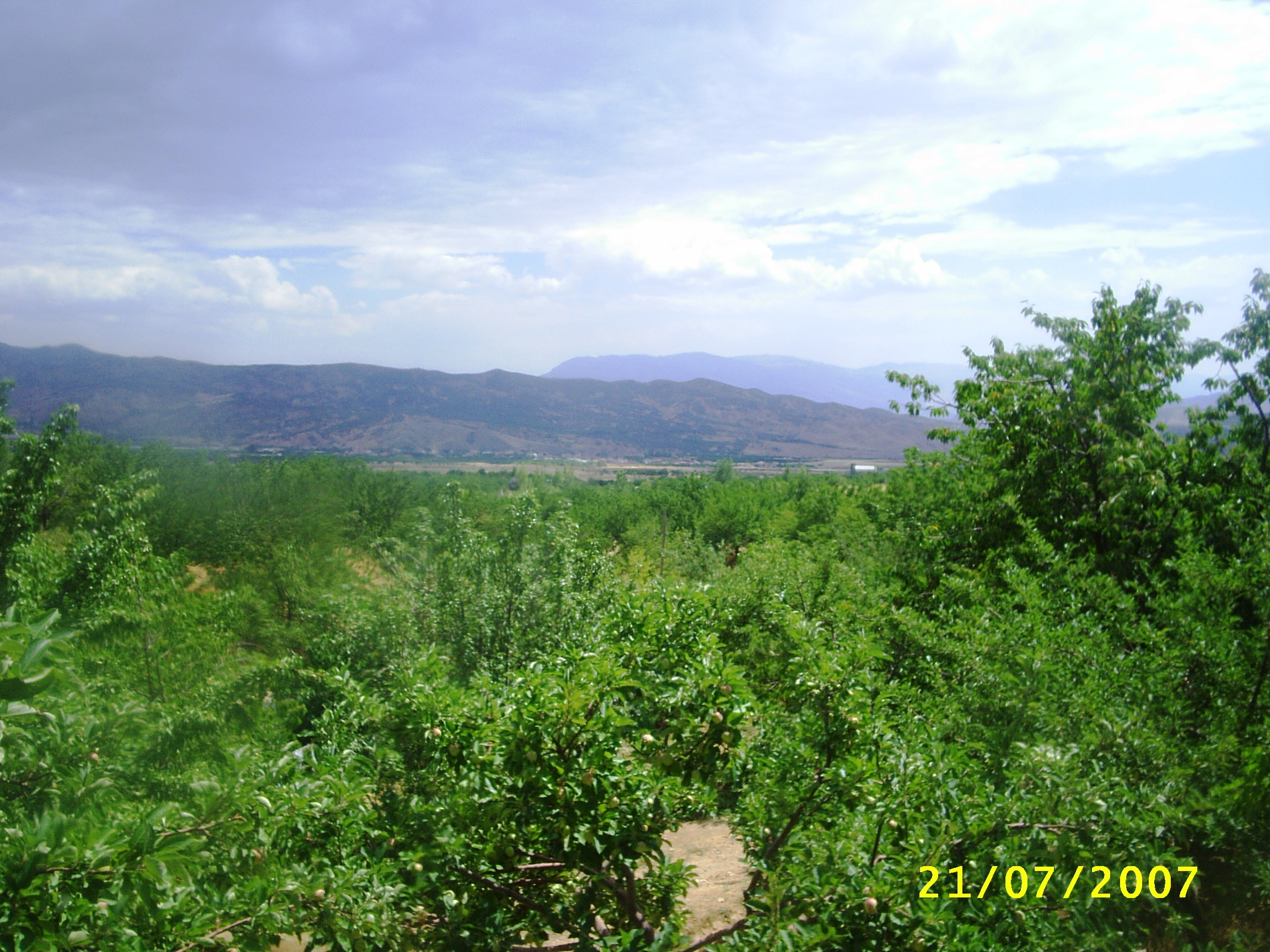 Apricot trees in Baskil.